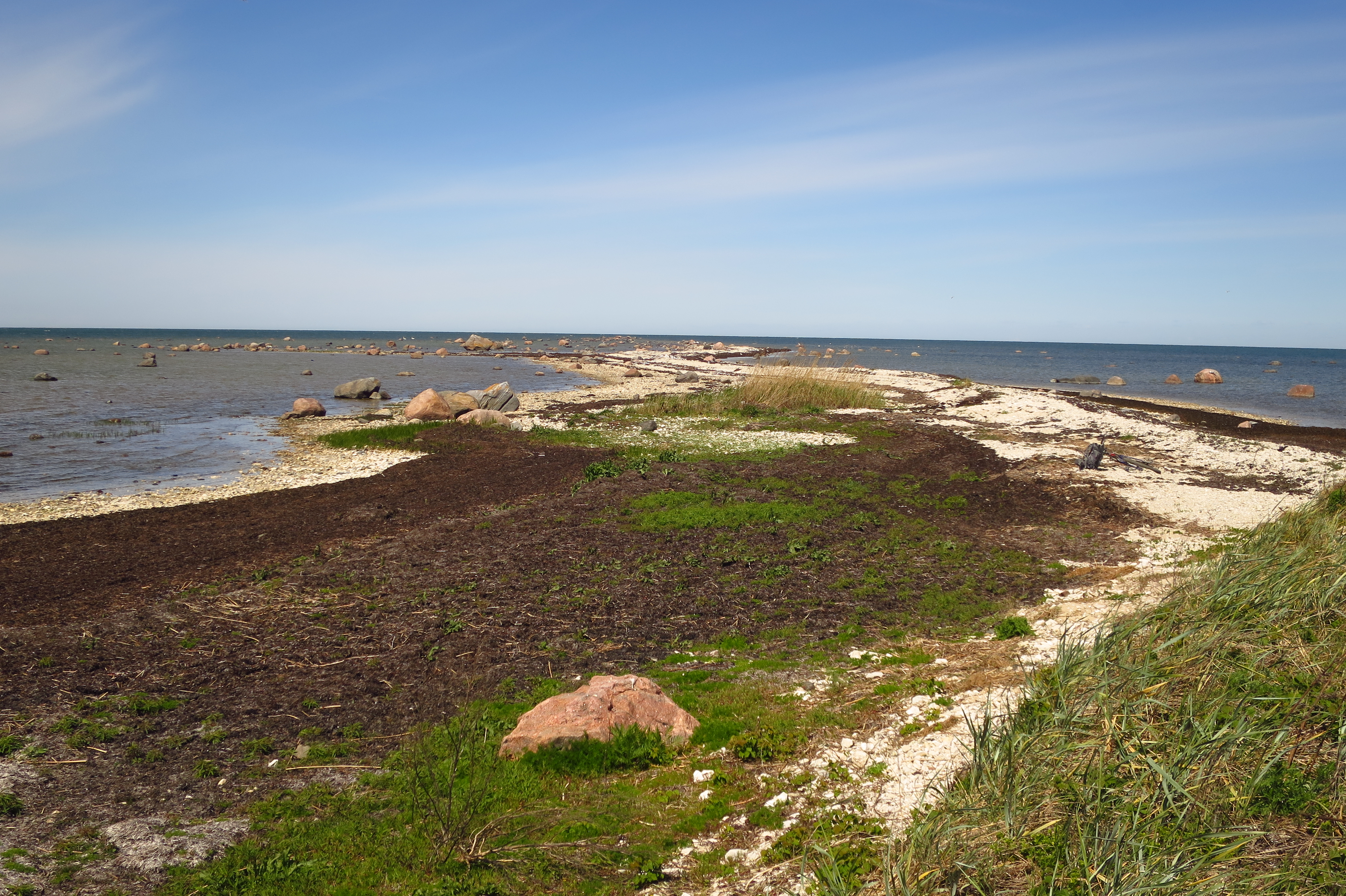 Austurgrunne neem Vormsi MKAl